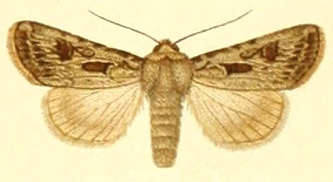 Image from Plate 7 of Die Gross-Schmetterlinge der Erde (The Macrolepidoptera of the World) Vol. 3